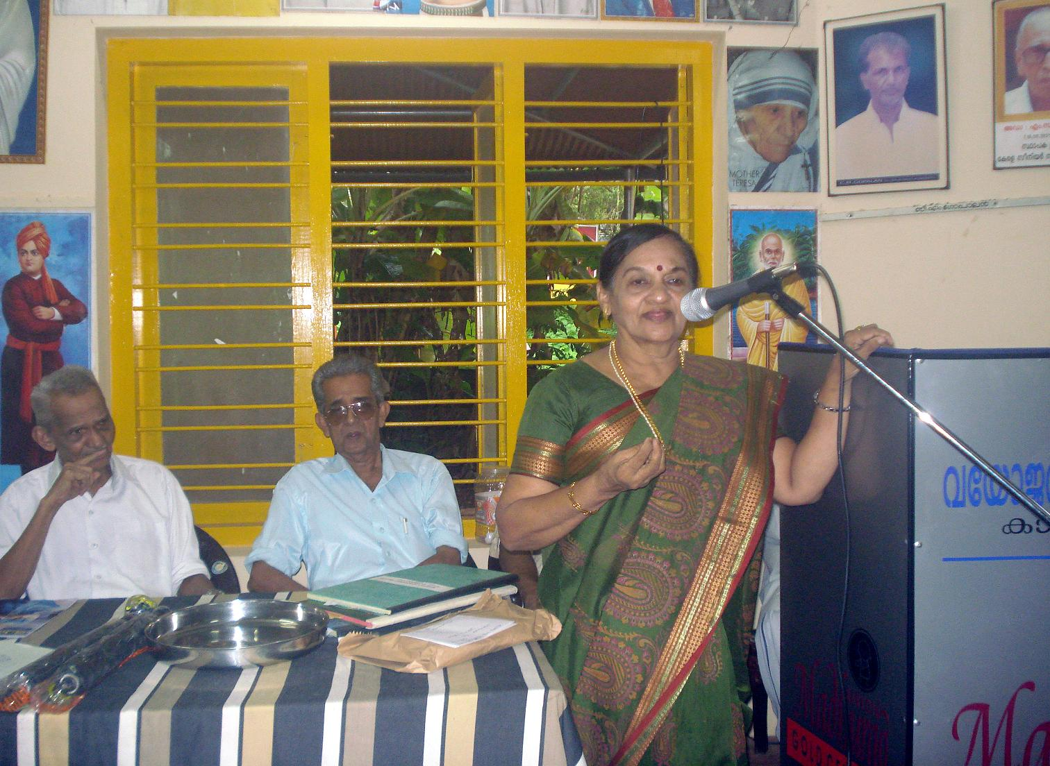 Valliteacher on stage Teacher actor award winner